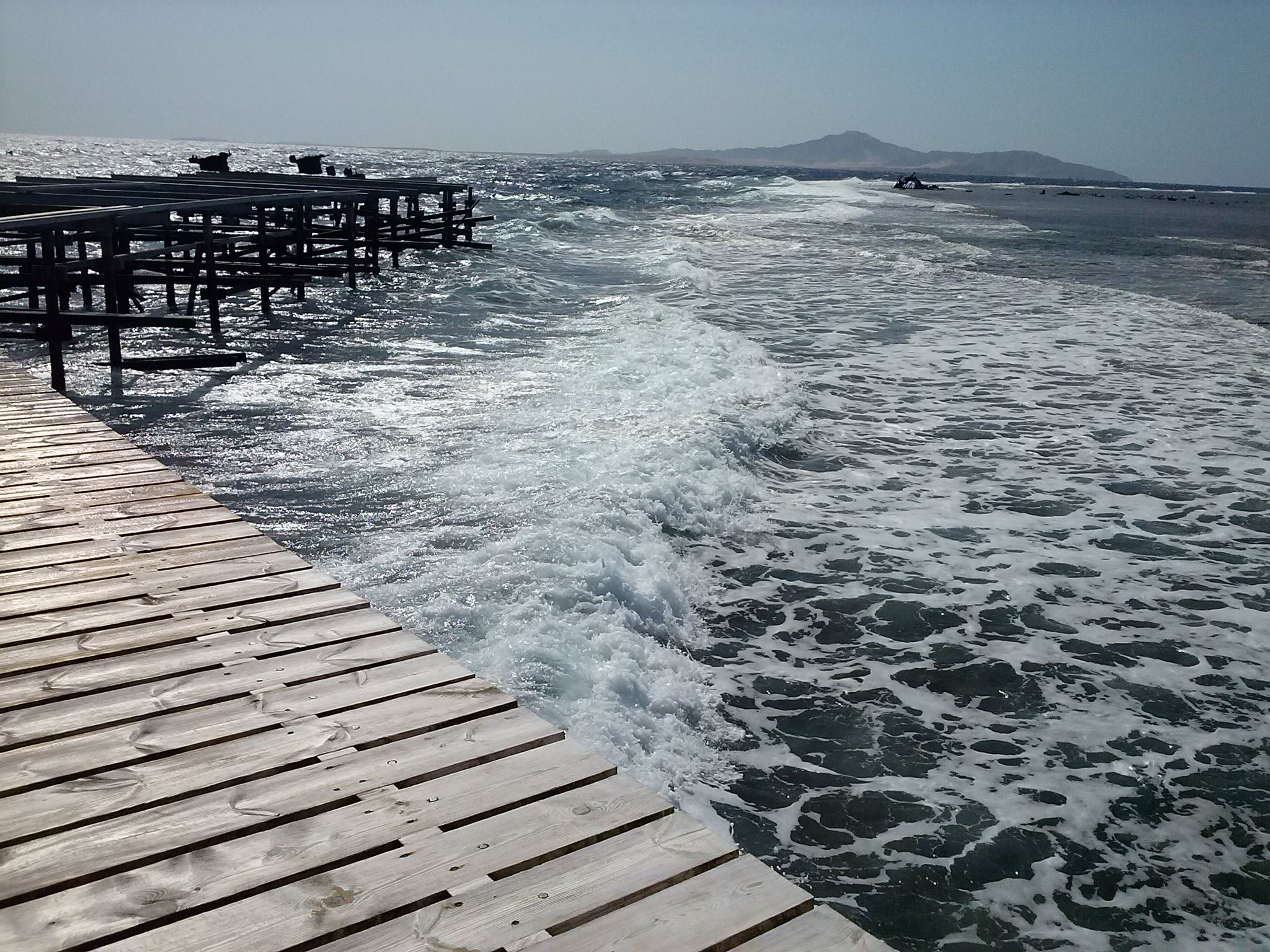 Sharm el-Sheikh, Nabq Bay, South Sinai, Egypt. April 2013.